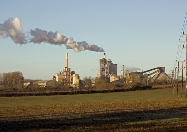 Field with power lines: Ketton, Rutland Ketton Kiln 8 (right stack) is at SK984058: it was the only Ketton kiln operating on this sharp December morning.